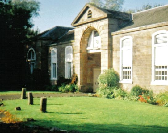 The Coach House, Cunninghamhead, Ayrshire, with Scottish staddle stones (minus caps) in front